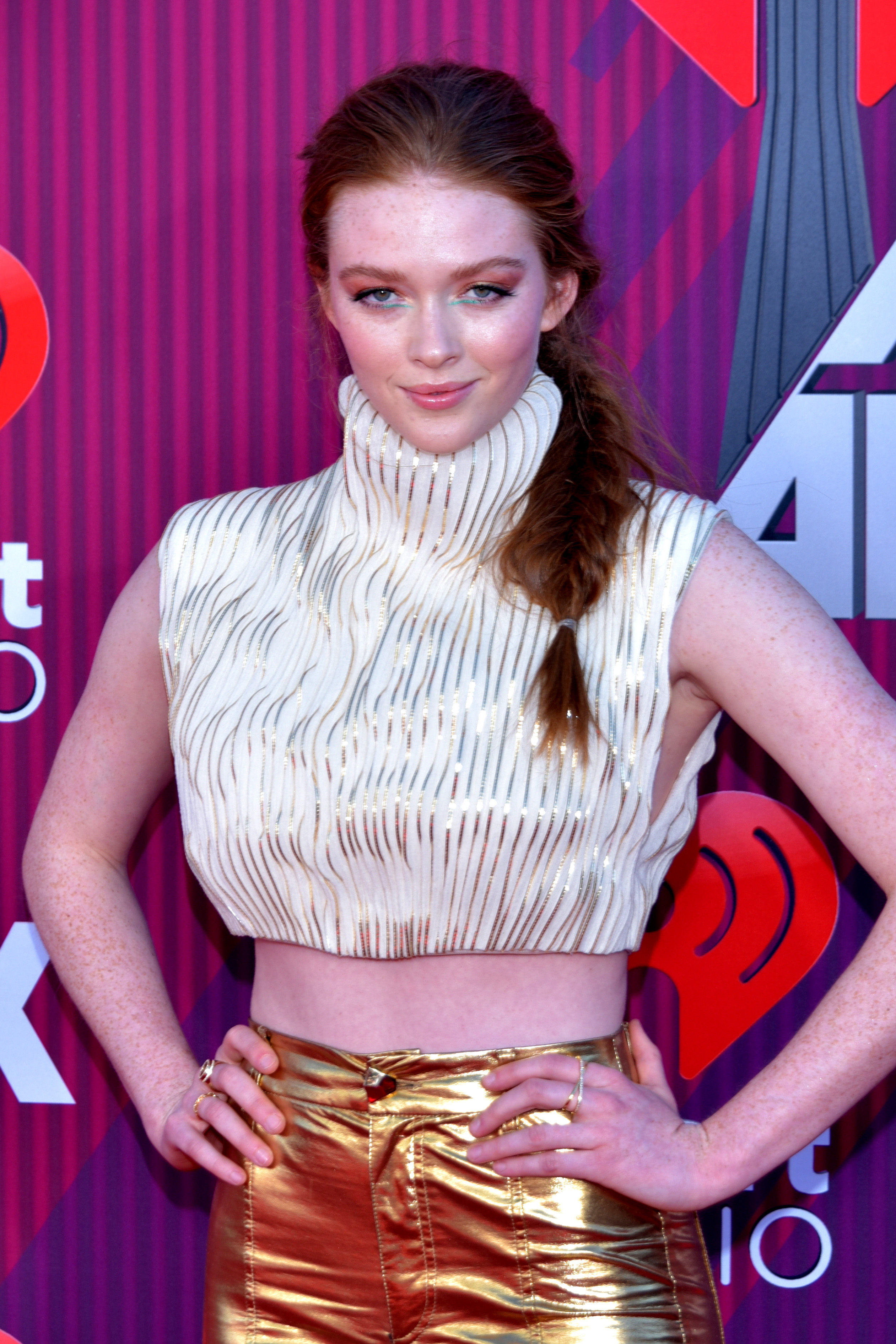 Larsen Thompson at the 2019 iHeartRadio Music Awards in Los Angeles California on March 14, 2019 - Photo by Glenn Francis of